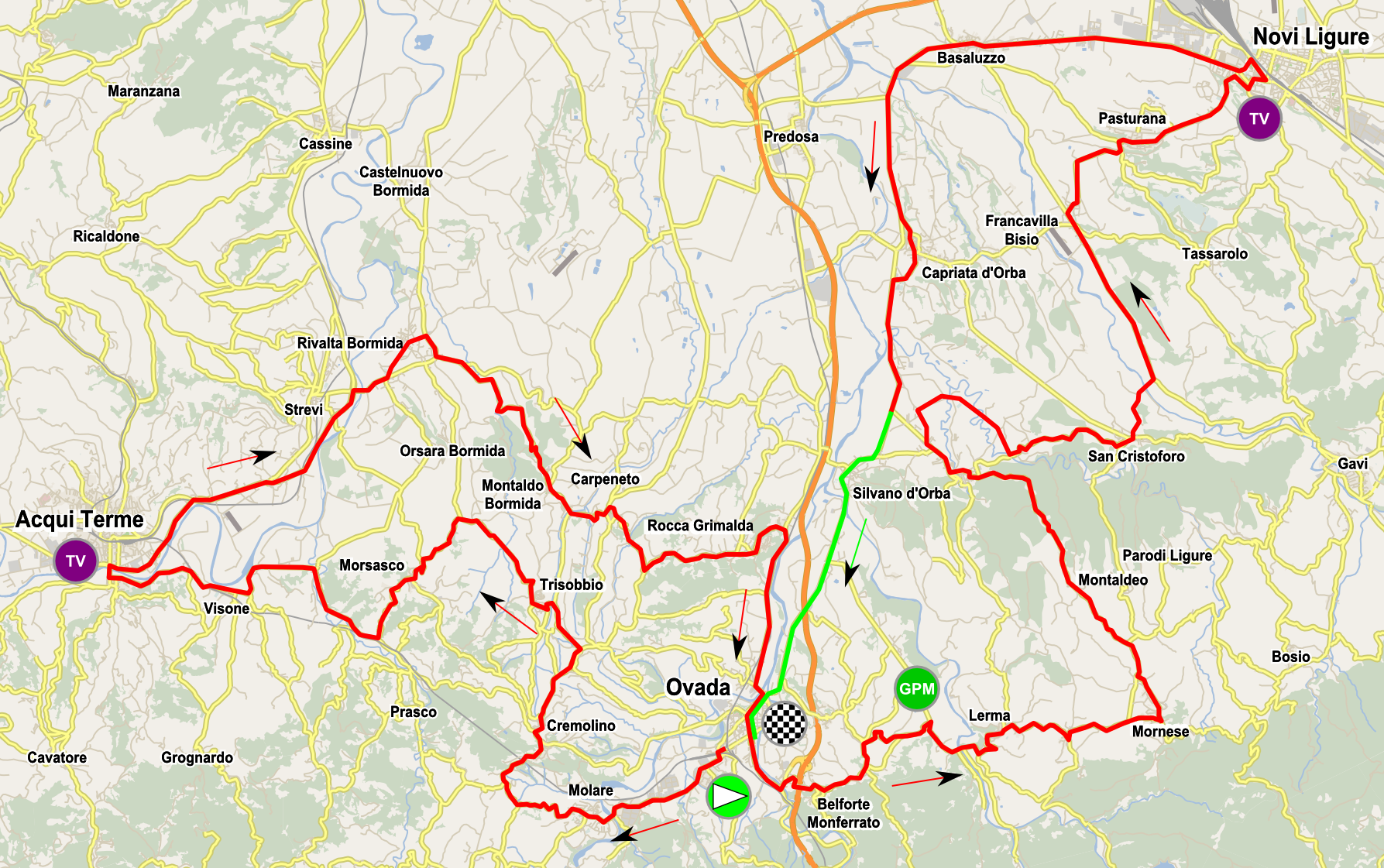 Map of stage 2 of Giro donne 2018.